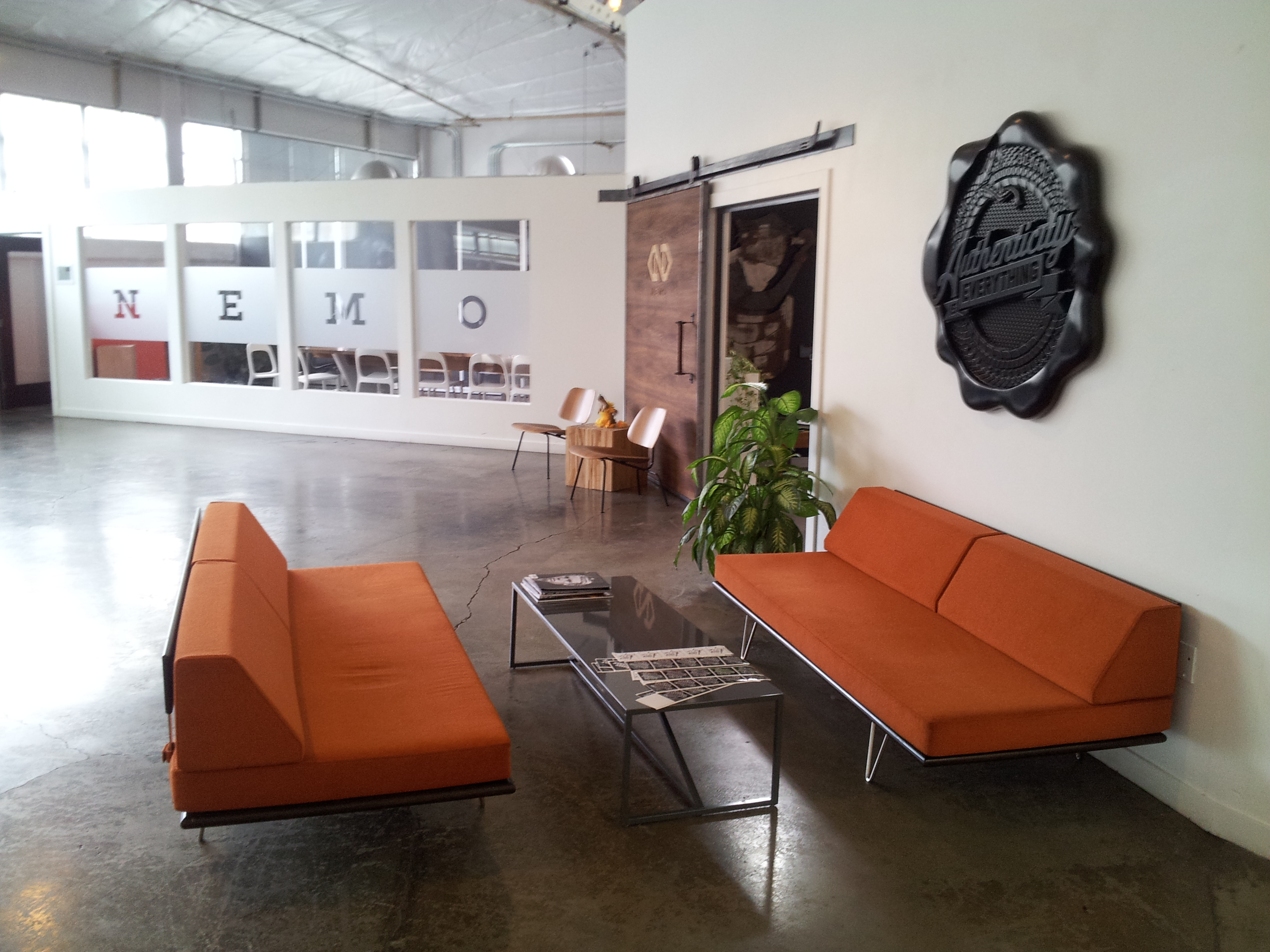 Lobby of Nemo Design at 1875 Southeast Belmont Street in Portand, Oregon's Beckman neighborhood in 2015